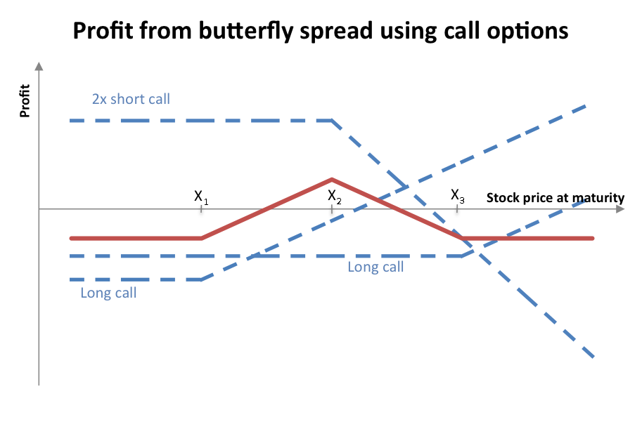 Profit diagram of a butterfly spread created with call options